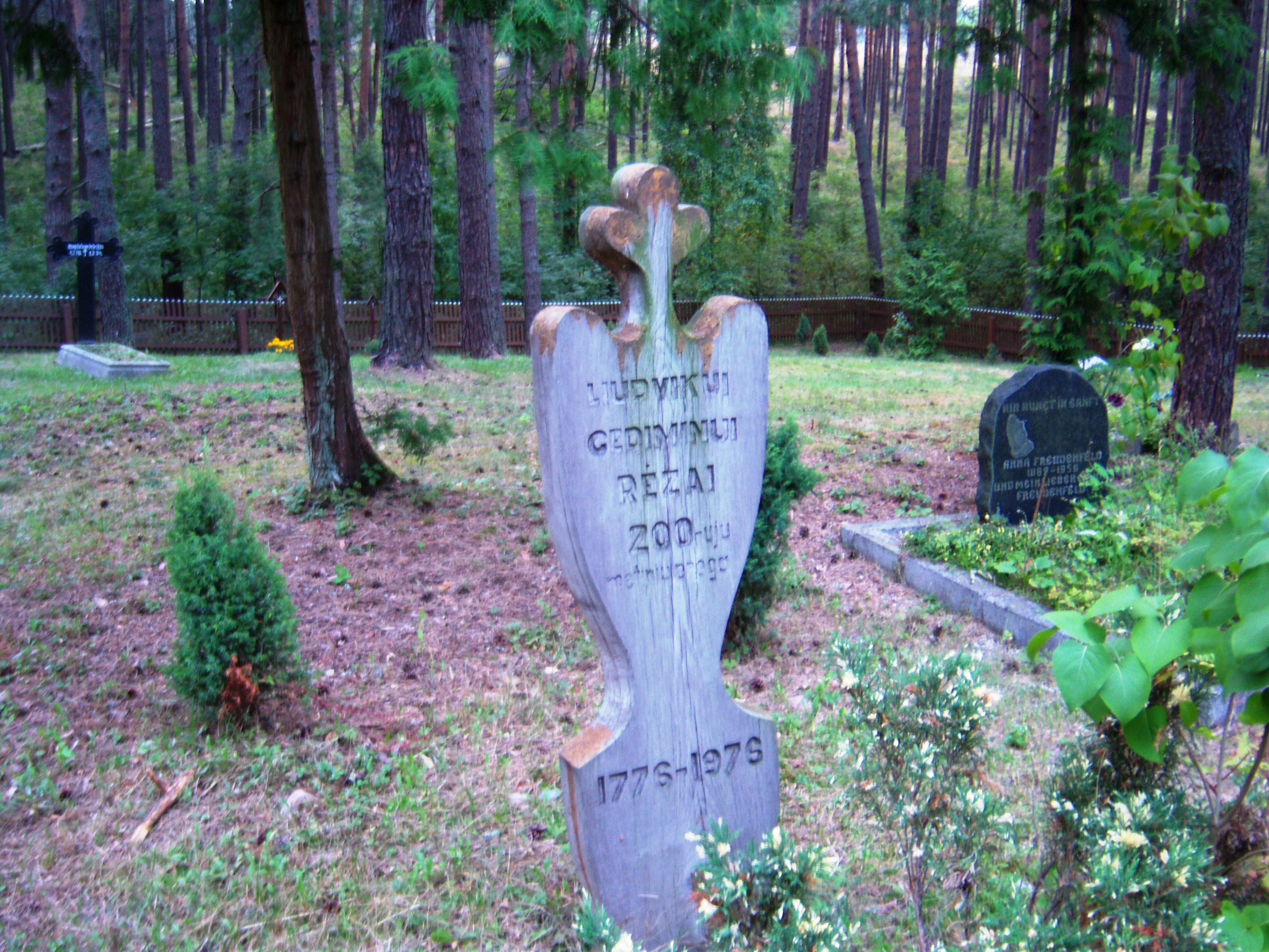 Liudvikas Rėza, 200 years, Preila old cemetery, Lithuania